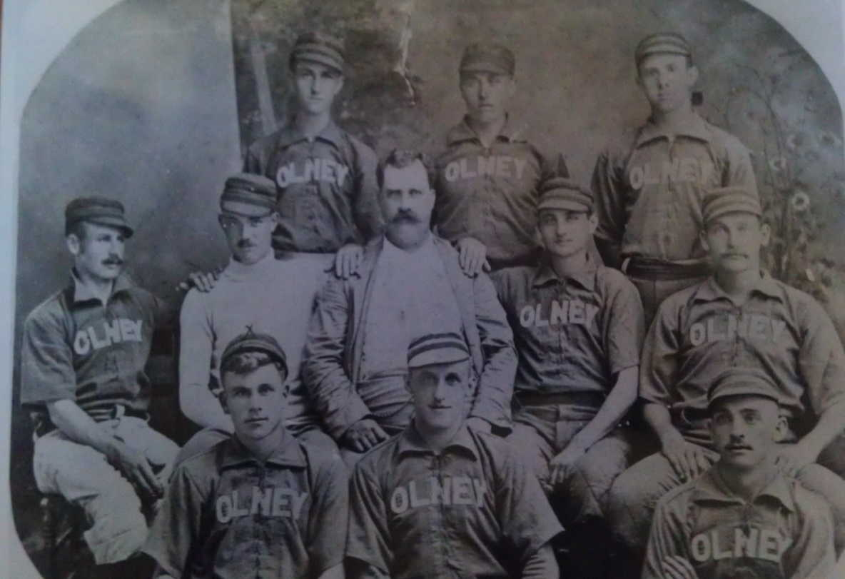 Olney, IL, Baseball Team, 1893. Upper Row, l to r: Dan O'Mara, Heneger, Dan Pickering. Middle Row, l to r: Billy Smith, Charley Walkins, Mel Routzen, Harry Sonier, Knox Lee. Lower Row, l to r: Edwin Boyatt, Forseth, Marv Fletcher (Dan "Ollie" Pickering played major league baseball for the Louisville Colonels, Cleveland Blues, St. Louis Browns and Washington Senators. Pickering was the first batter in the first American League baseball game when he batted leadoff for the Cleveland Blues vs. Chicago White Sox, April 24, 1901.)